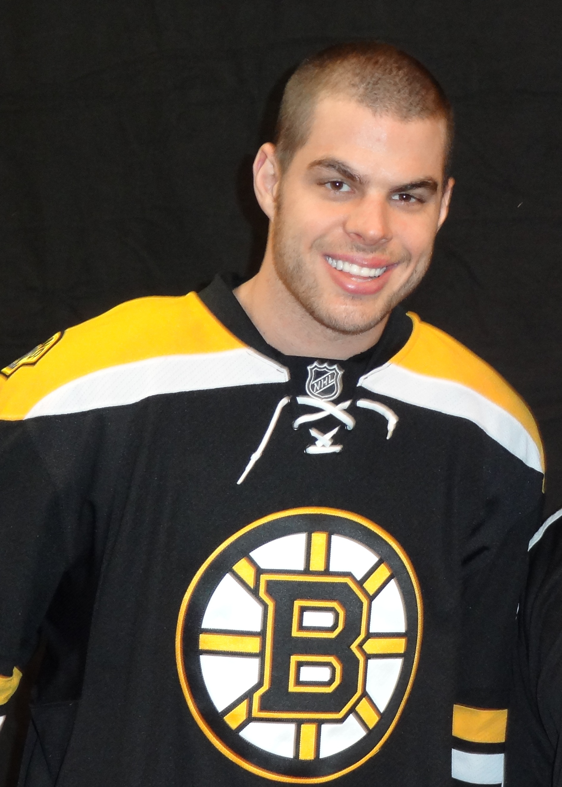 Taken at the "Slice the Ice" event held at TD Garden, Boston, MA on 08 Jan 12.